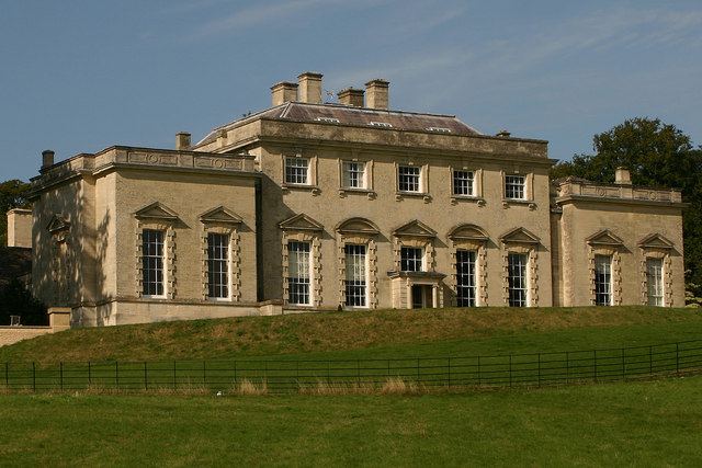 Painswick House The Painswick Rococo Gardens form part of the grounds of this handsome Georgian country house, built by Charles Hyett in the 1730s.